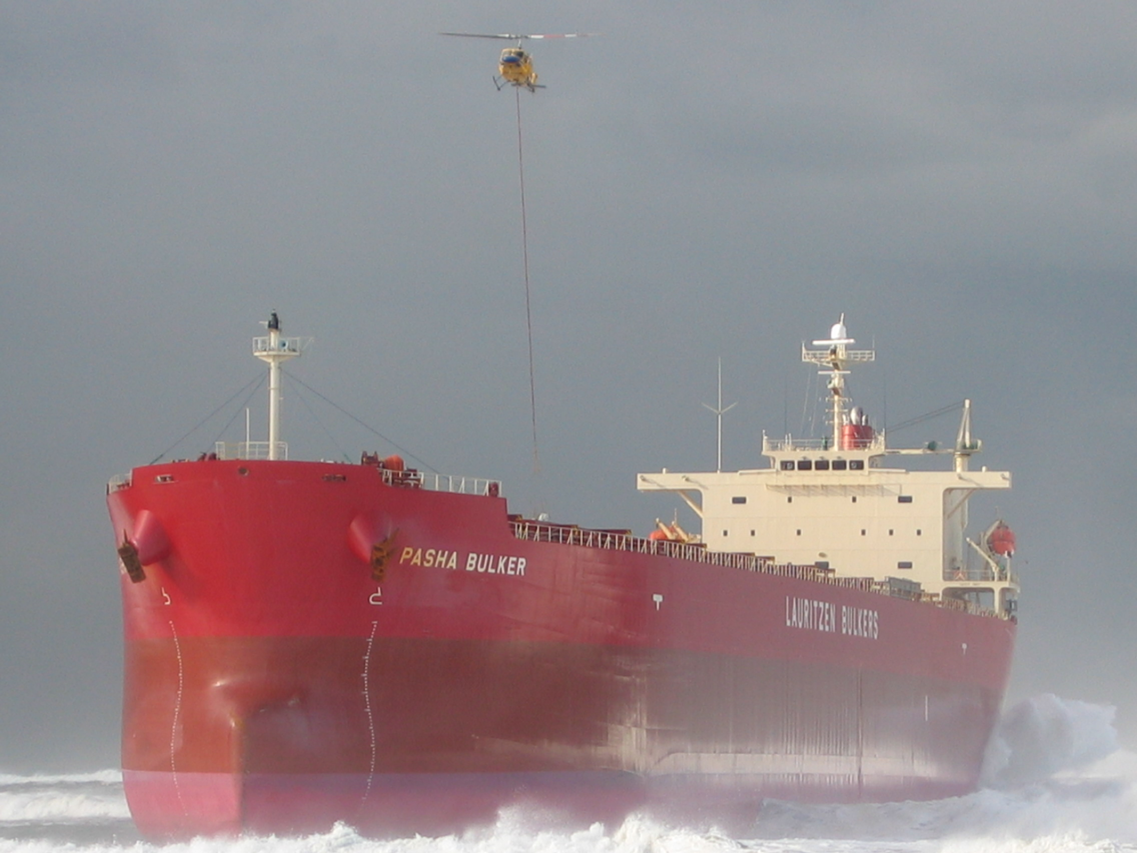 Close up shot of Pasha Bulker IMO number: 9317729